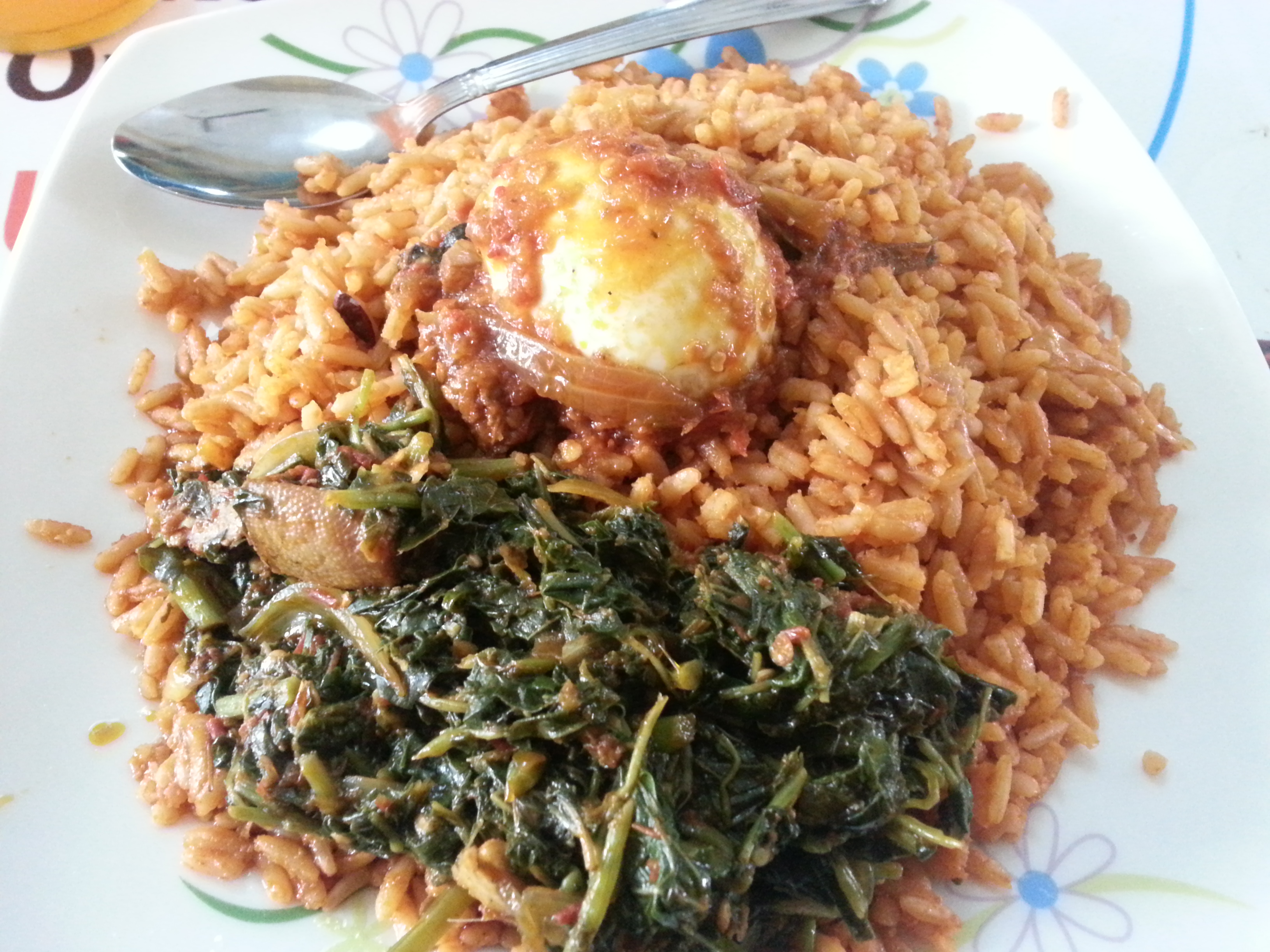 Jollof rice is a popular way of making rice in West Africa, this (as seen in this picture) is garnished with vegetable sauce, and a boiled egg. Healthy and balanced meal, and quite cheap to make :) This is an image of food from Nigeria